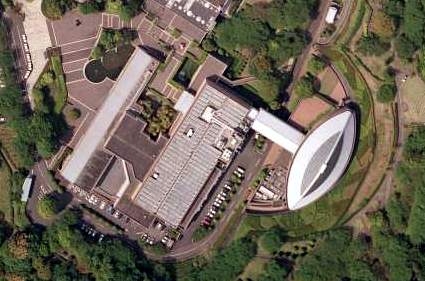 The Geographical Survey Institute took the aerial photograph in Shizuoka City, Shizuoka Prefecture on May 1, 2009.